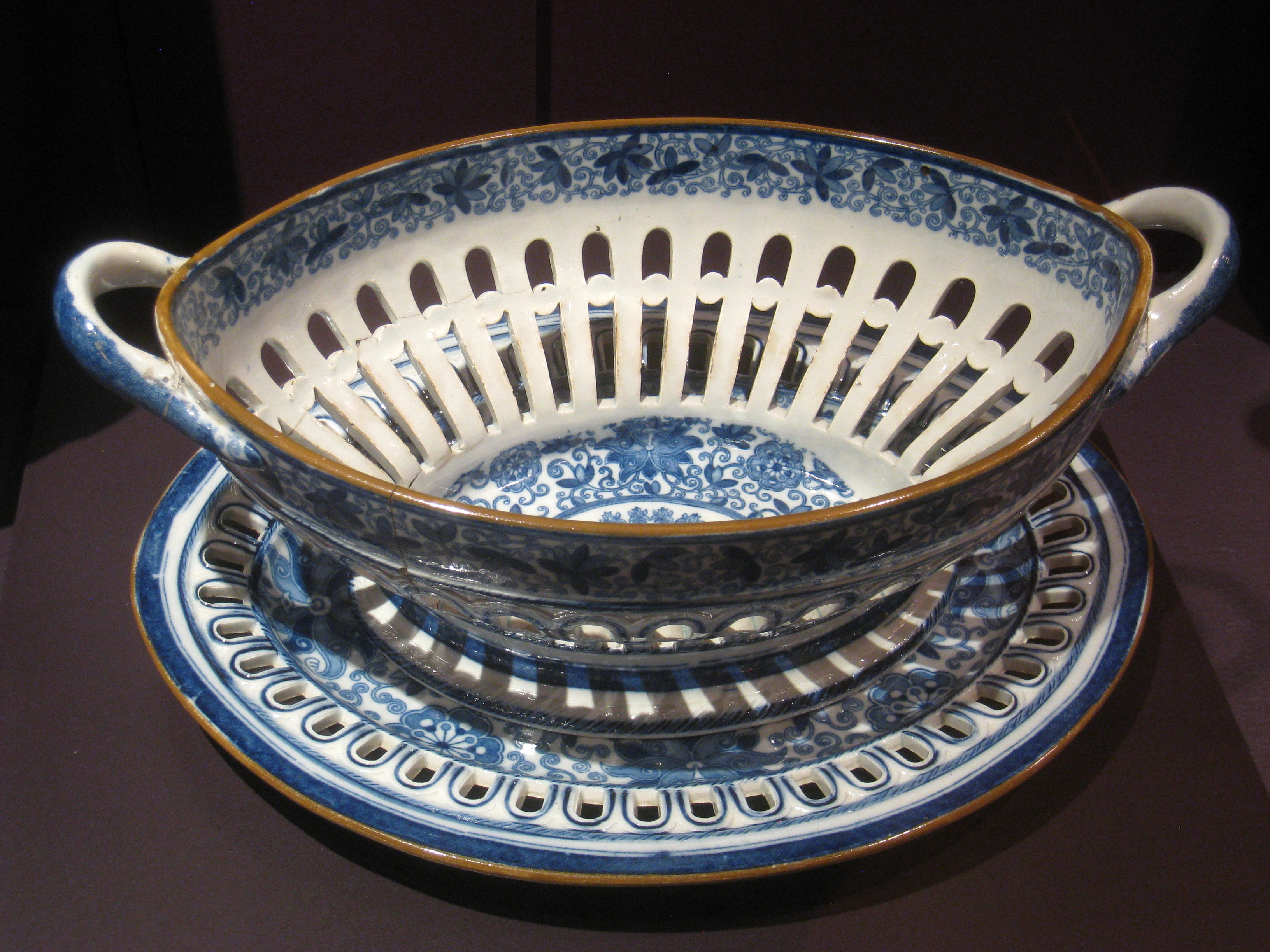 Fruit basket, pearlware with transfer-printed decoration; Yorkshire, England, circa 1810. Pottery exhibited in the DAR Museum, National Society Daughters of the American Revolution, 1776 D Street NW, Washington, DC, USA.